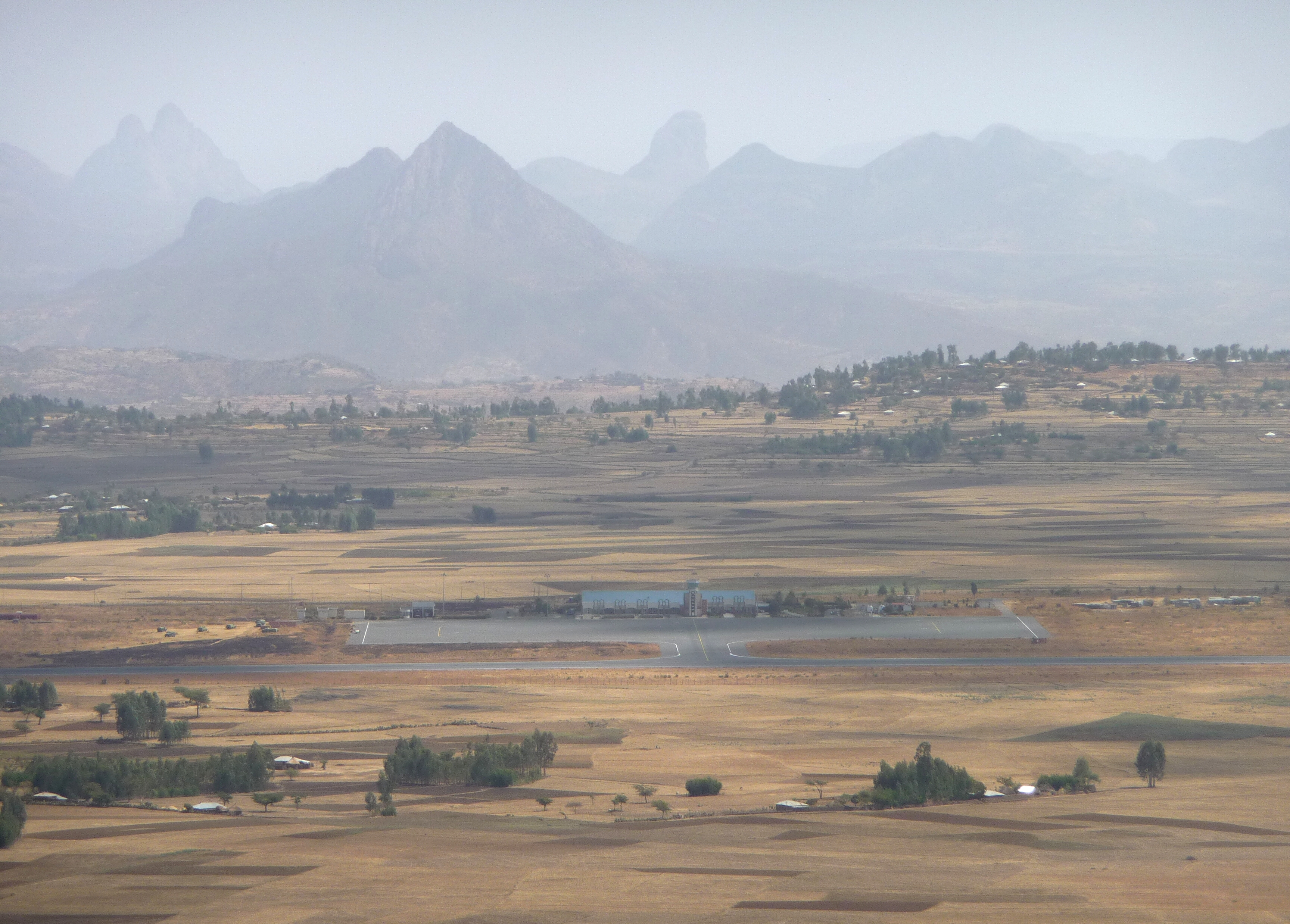 View to the Axum airport from the Abba Pentalewon Monastery near Aksum (Tigray Region, Ethiopia).